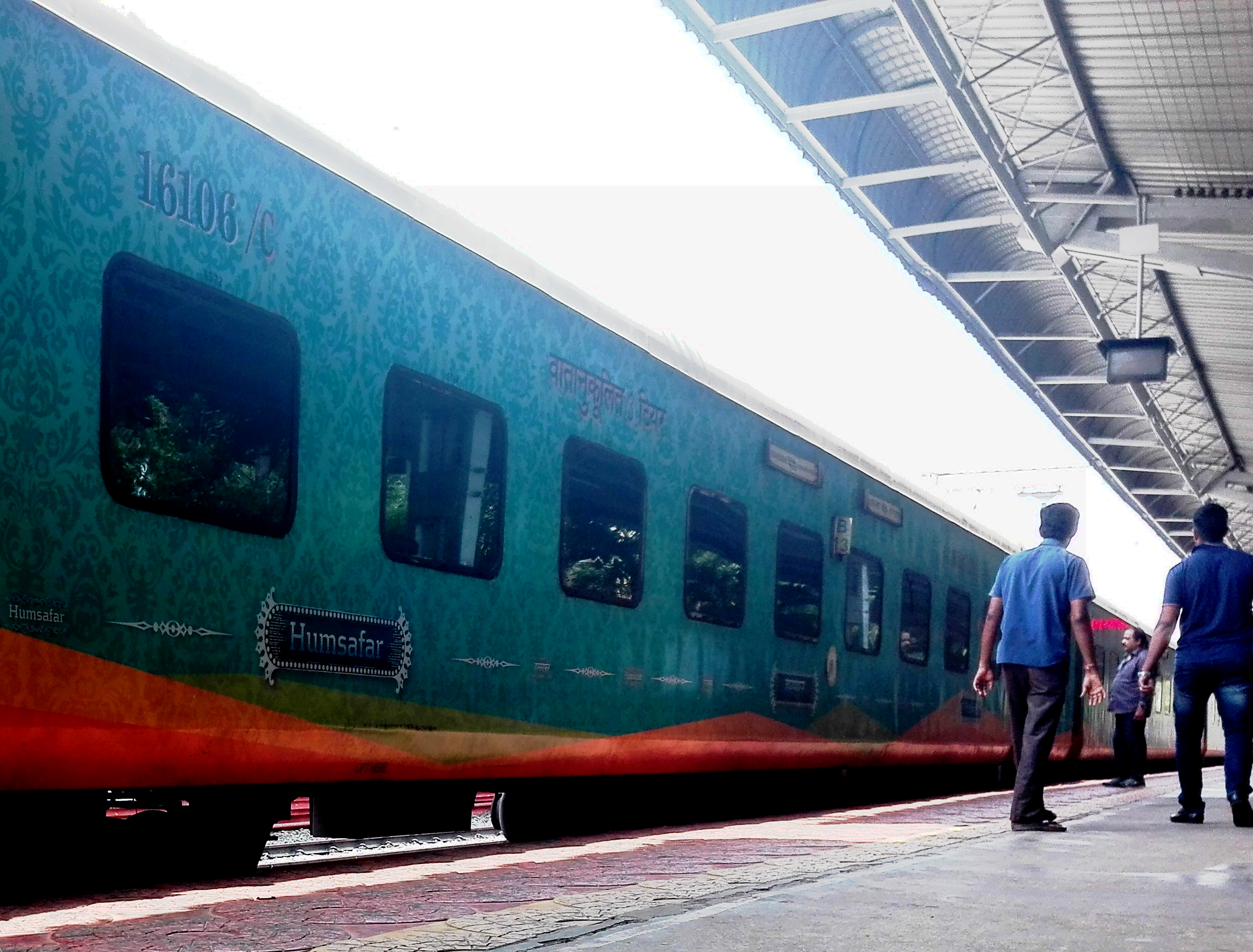 Bhubaneswar Humsafar Express at Samalkot